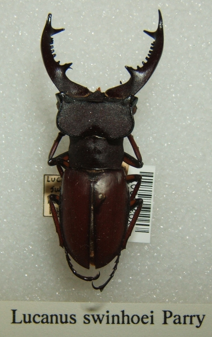 Lucanus swinhoei adult taken by Shawn Hanrahan at the Texas A&M University Insect Collection in College Station, Texas.